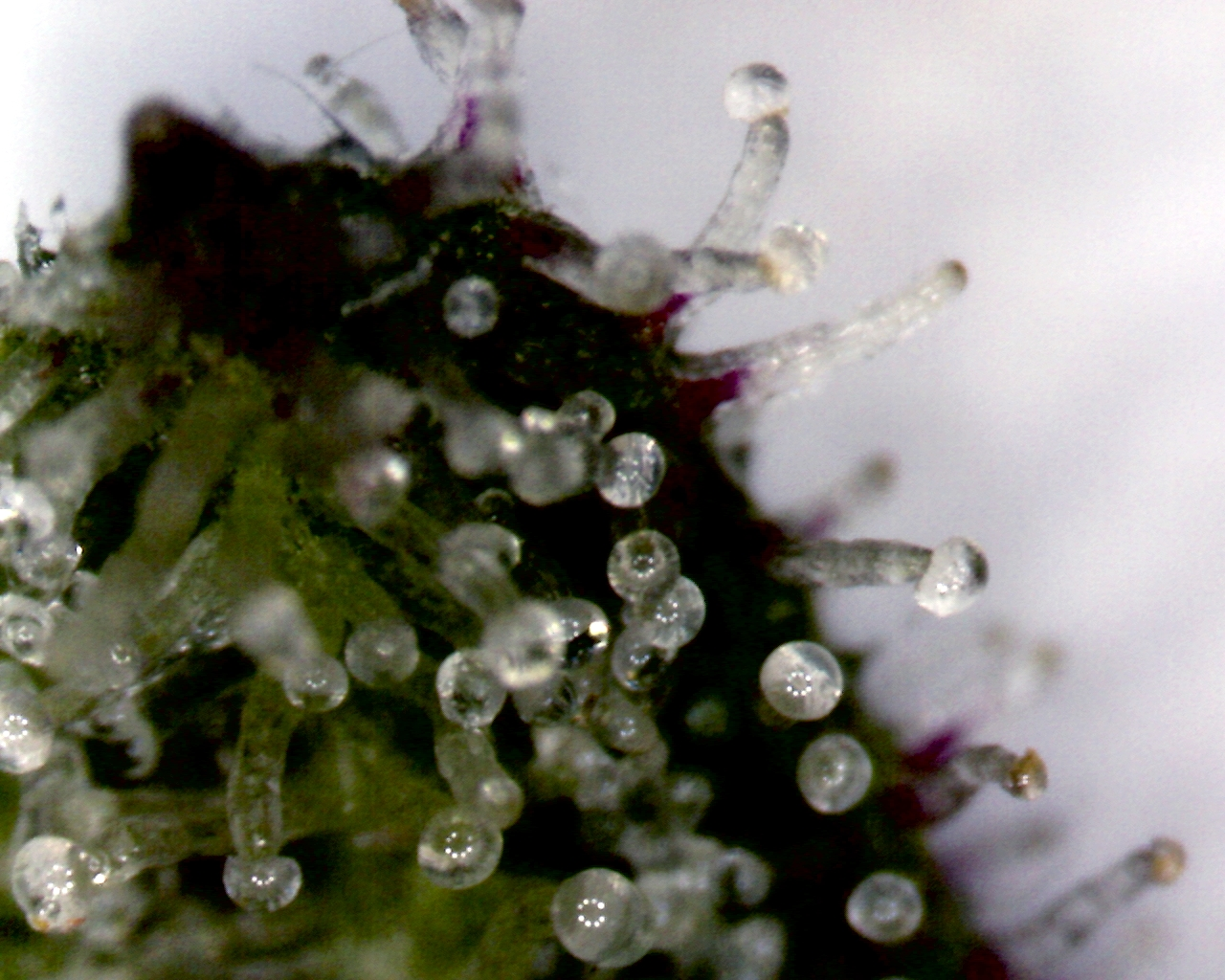 Trichomes on a Cannabis Sativa Flower